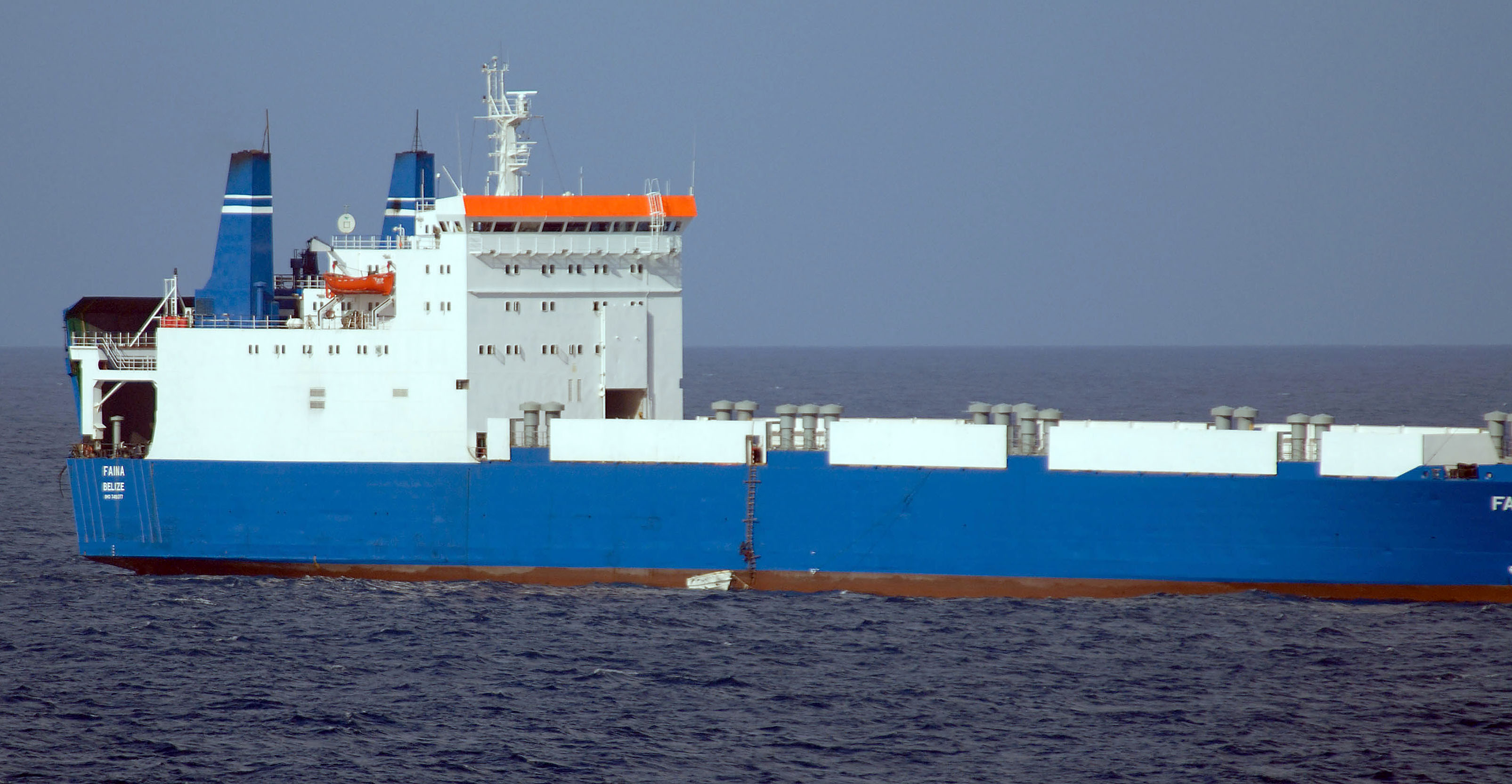 MV Faina, hijacked by the Somali pirates.